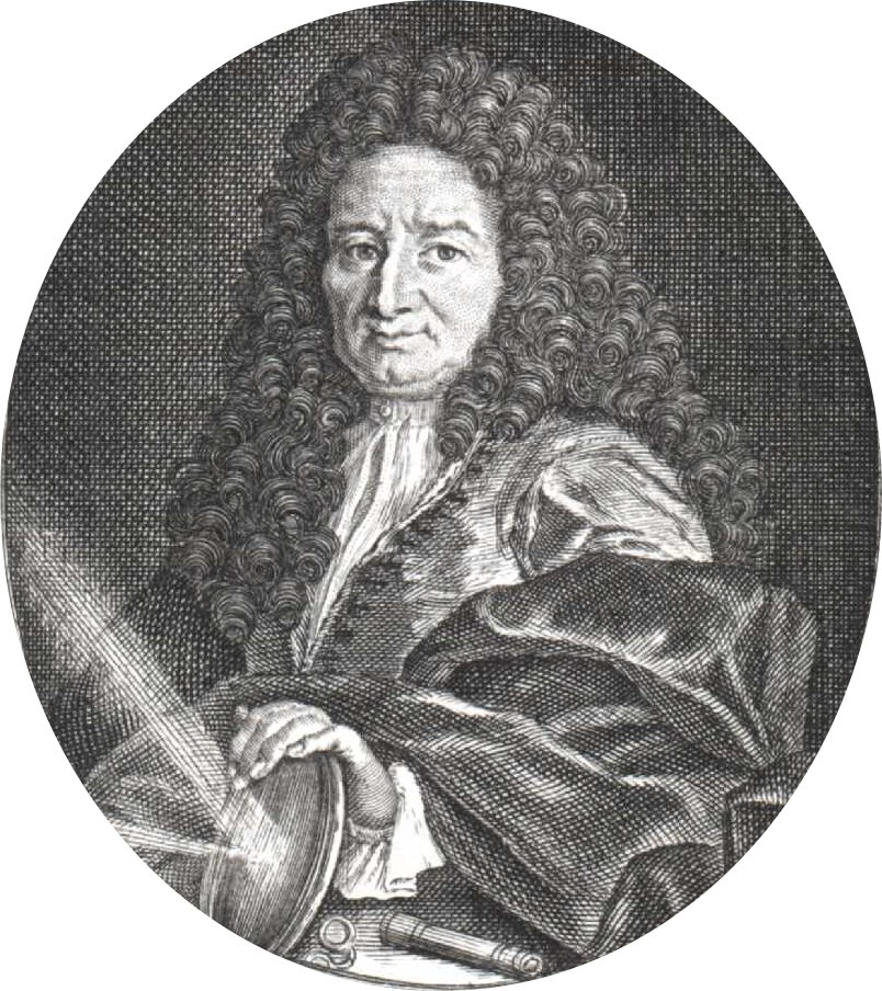 François Villette (1621 - 1698), Engineer and optics. Engraving, 9.4 x 8 cm / Sheet: 23.5 x 16.2 cm